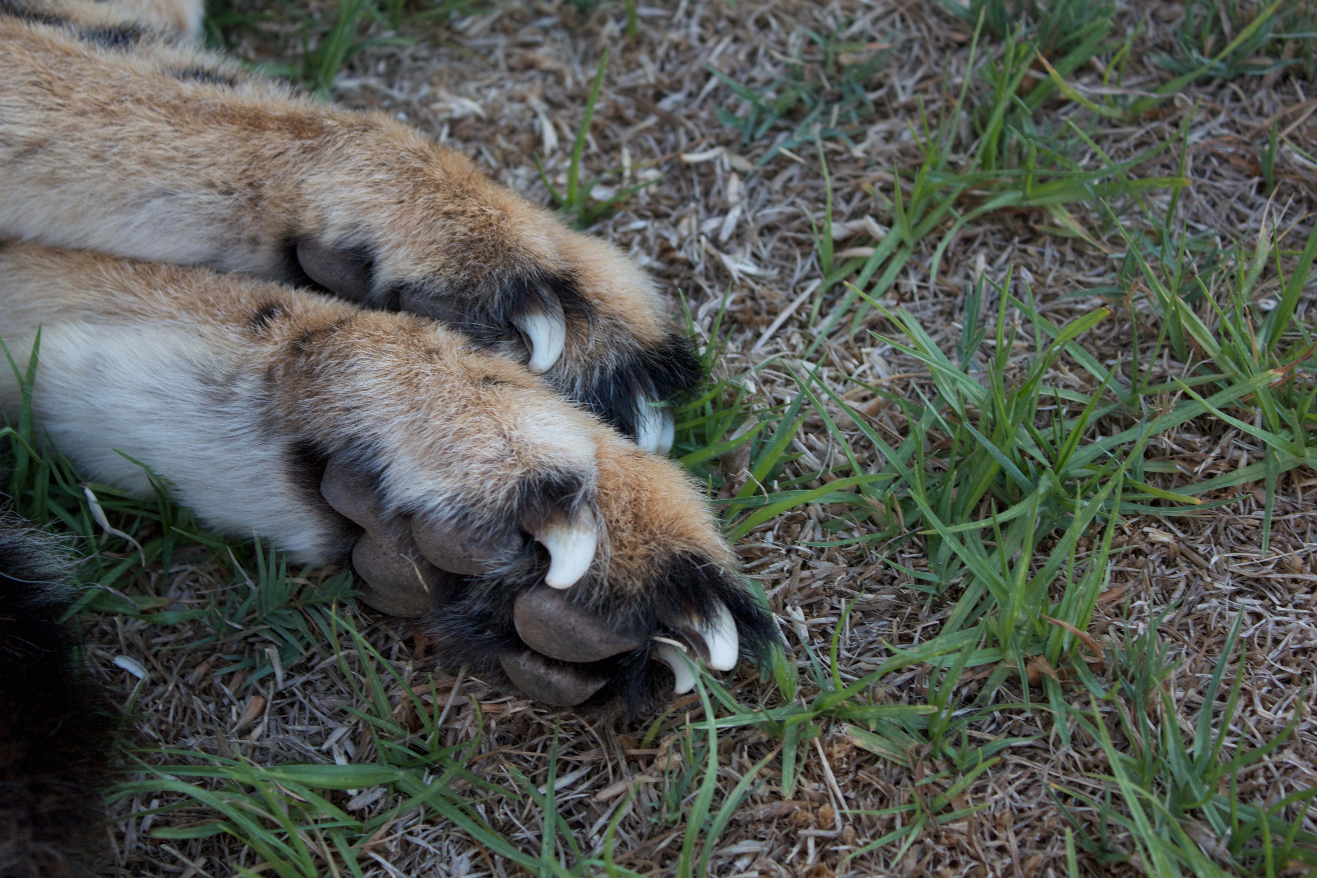 Cheetah paws, Penhill, Western Cape, ZA